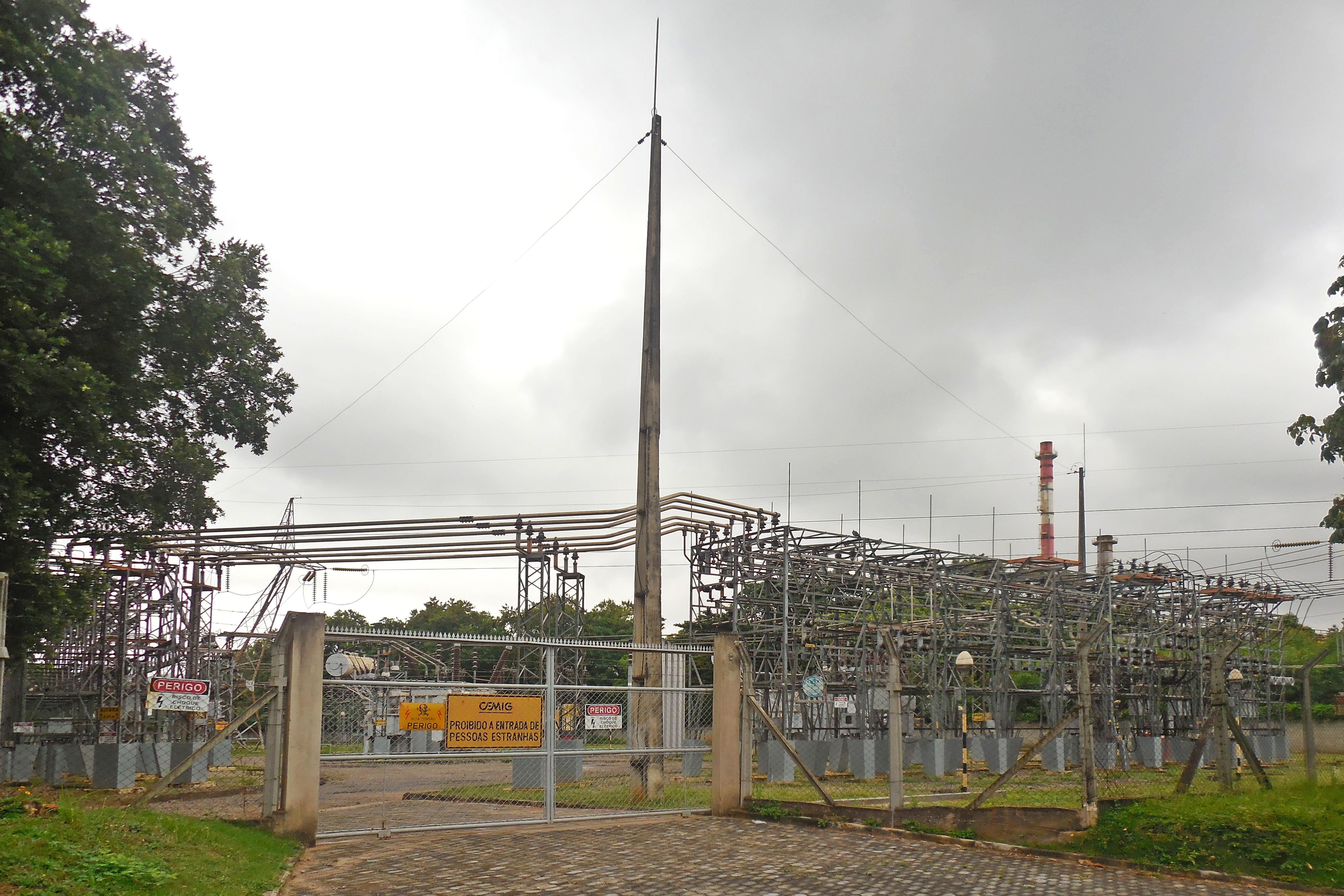 View of the central of energy of Timóteo, Minas Gerais, Brazil.